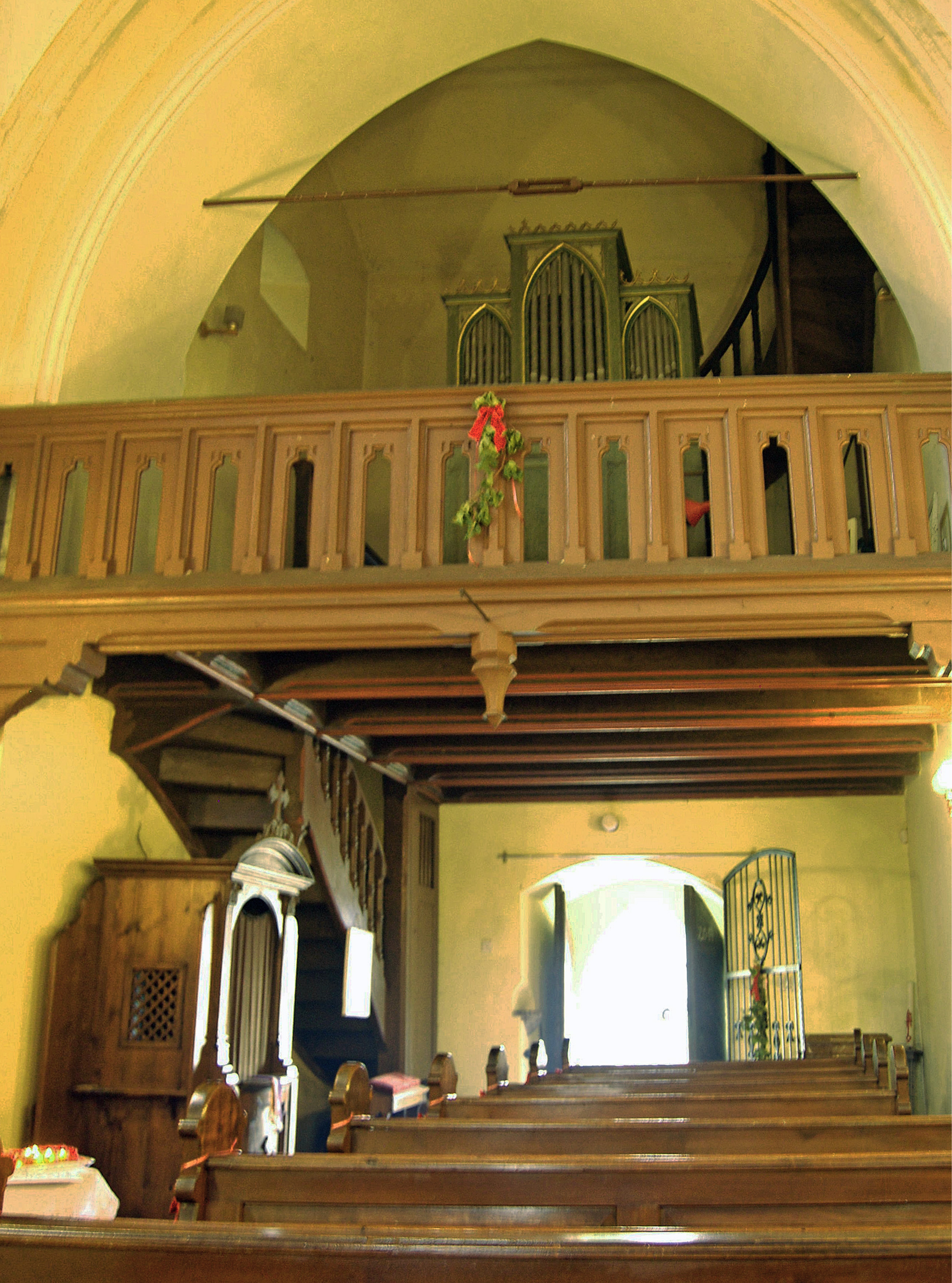 Church of St. Nicholas (interier), Velké Žernoseky, Czech Republic